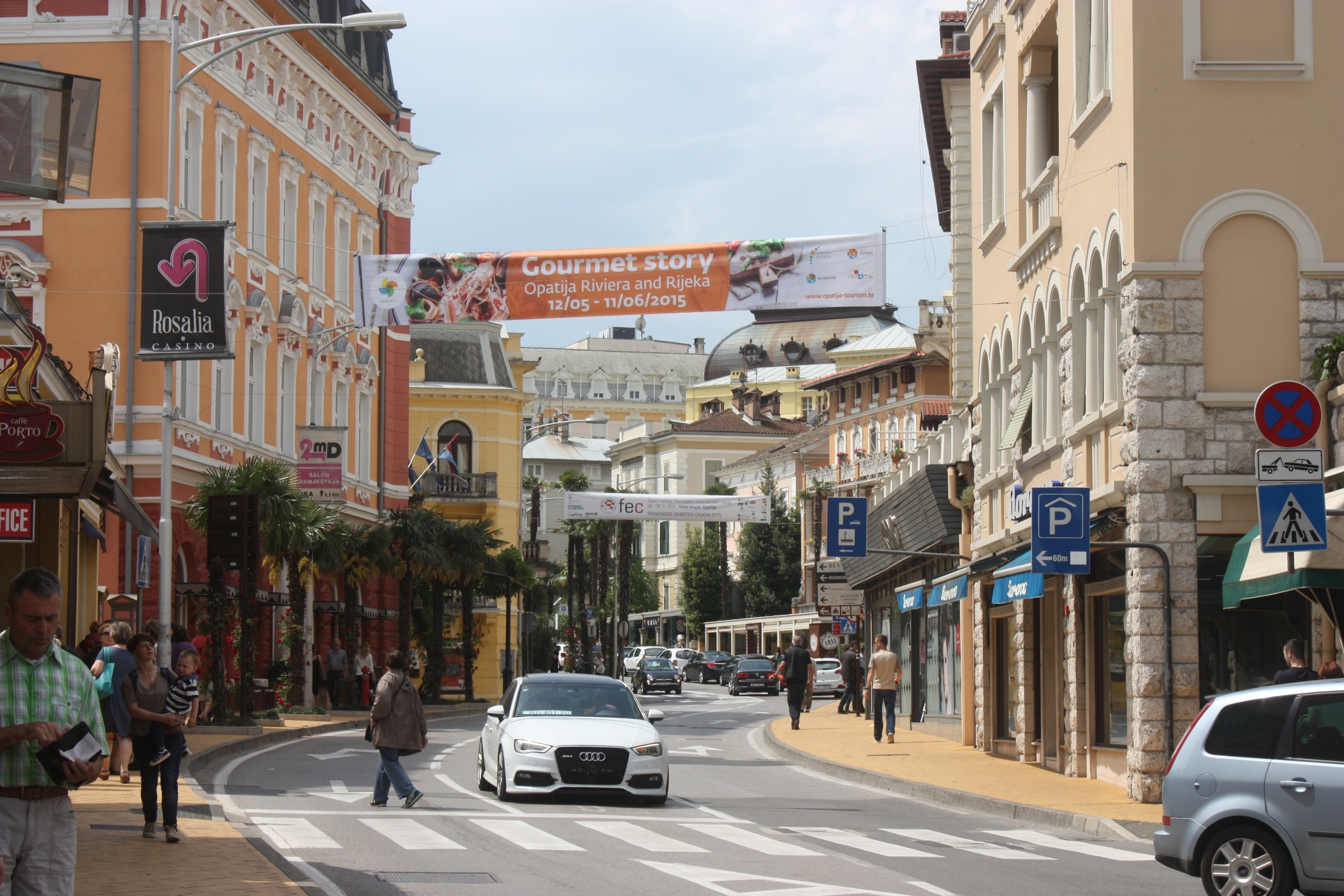 Opatija, buildings on the street Ul. Maršala Tita